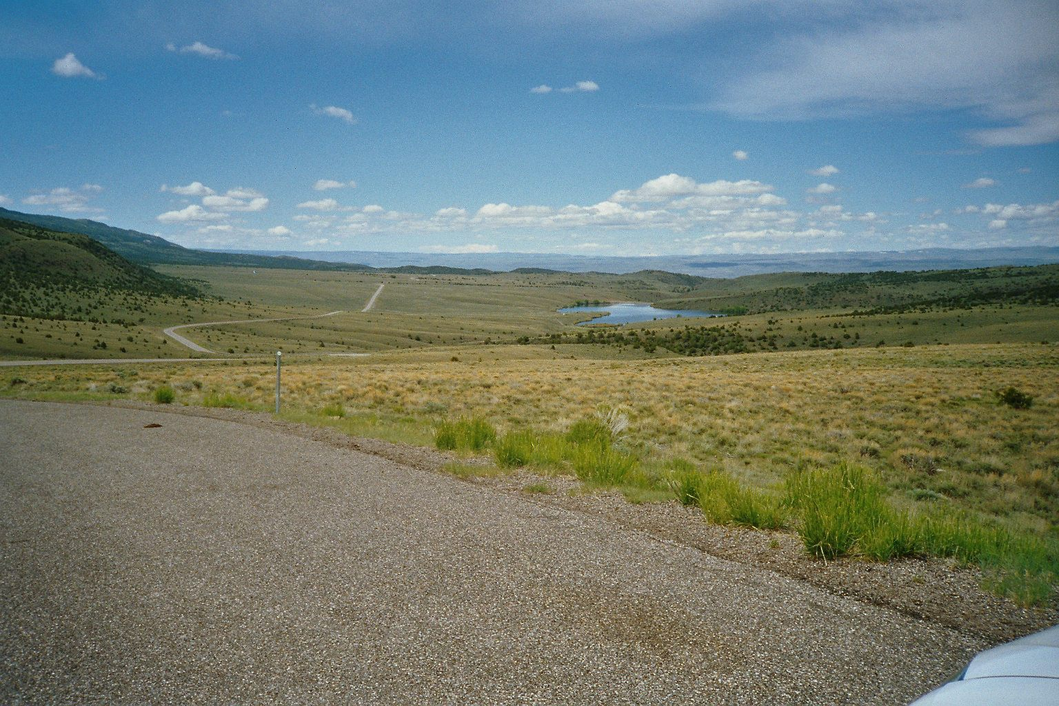 Sevier County (UT) SR 72s Fishlake National Forest, picture taken by myself in June 2005, author: R.Blauert Dk4hb